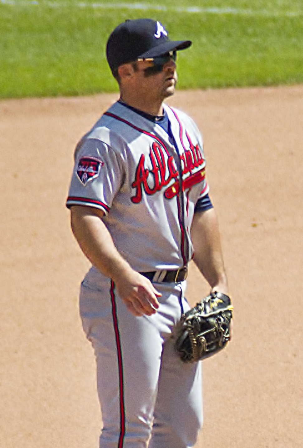 Dan Uggla Atlanta Braves 2nd baseman.